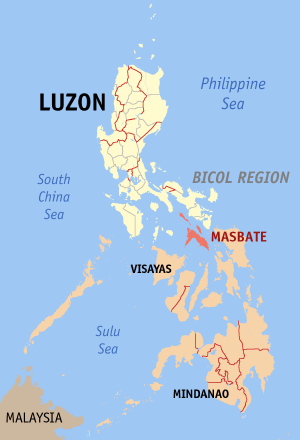 Map of the Philippines showing the location of Masbate